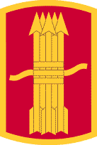 Distinctive Unit Insignia of the 197th Field Artillery Brigade, NH National Guard